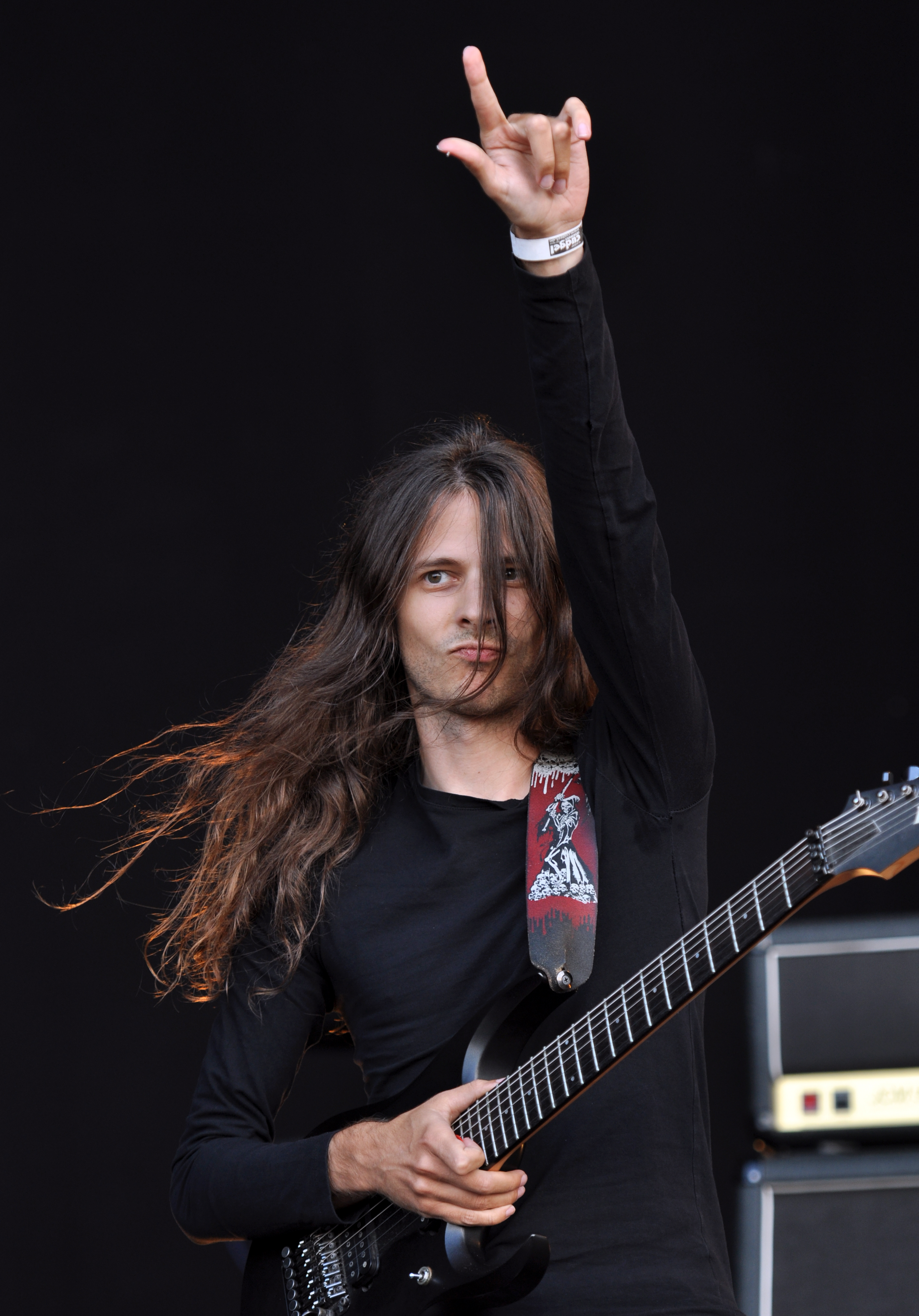 Obscura at Party.San Metal Open Air 2013